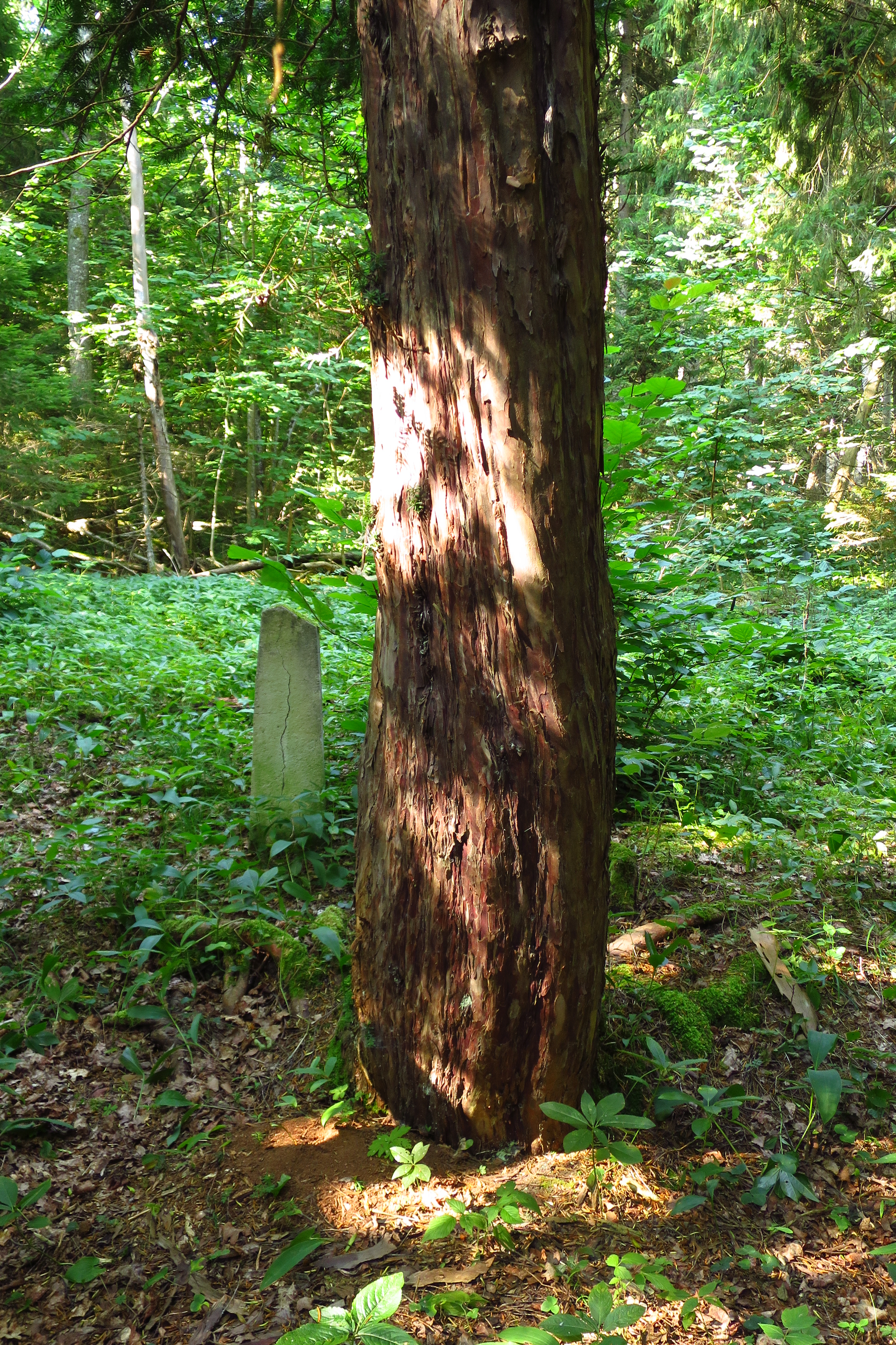 Sepise jugapuu Kesknõmme LKAl